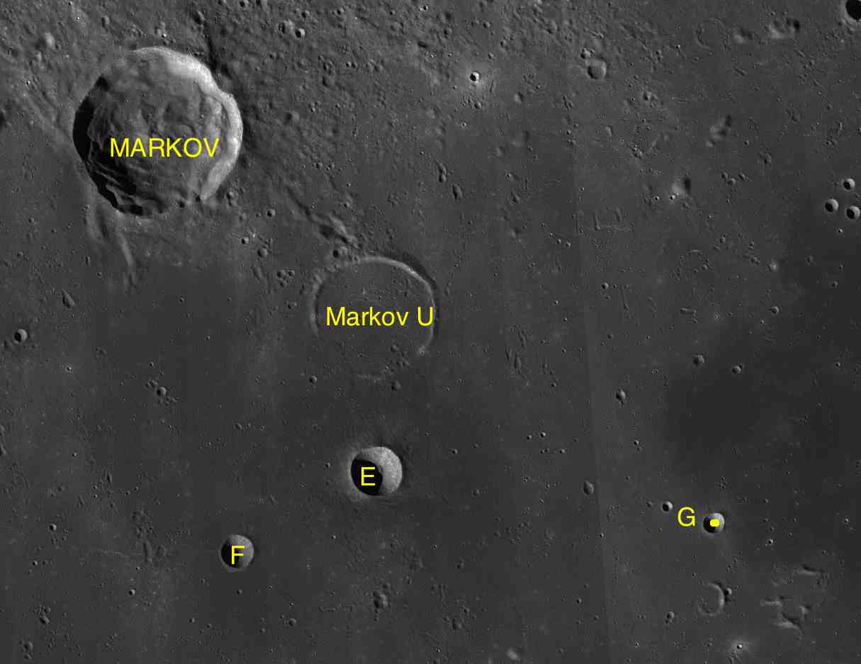 Part of the chart LAC-10 used for the presentation